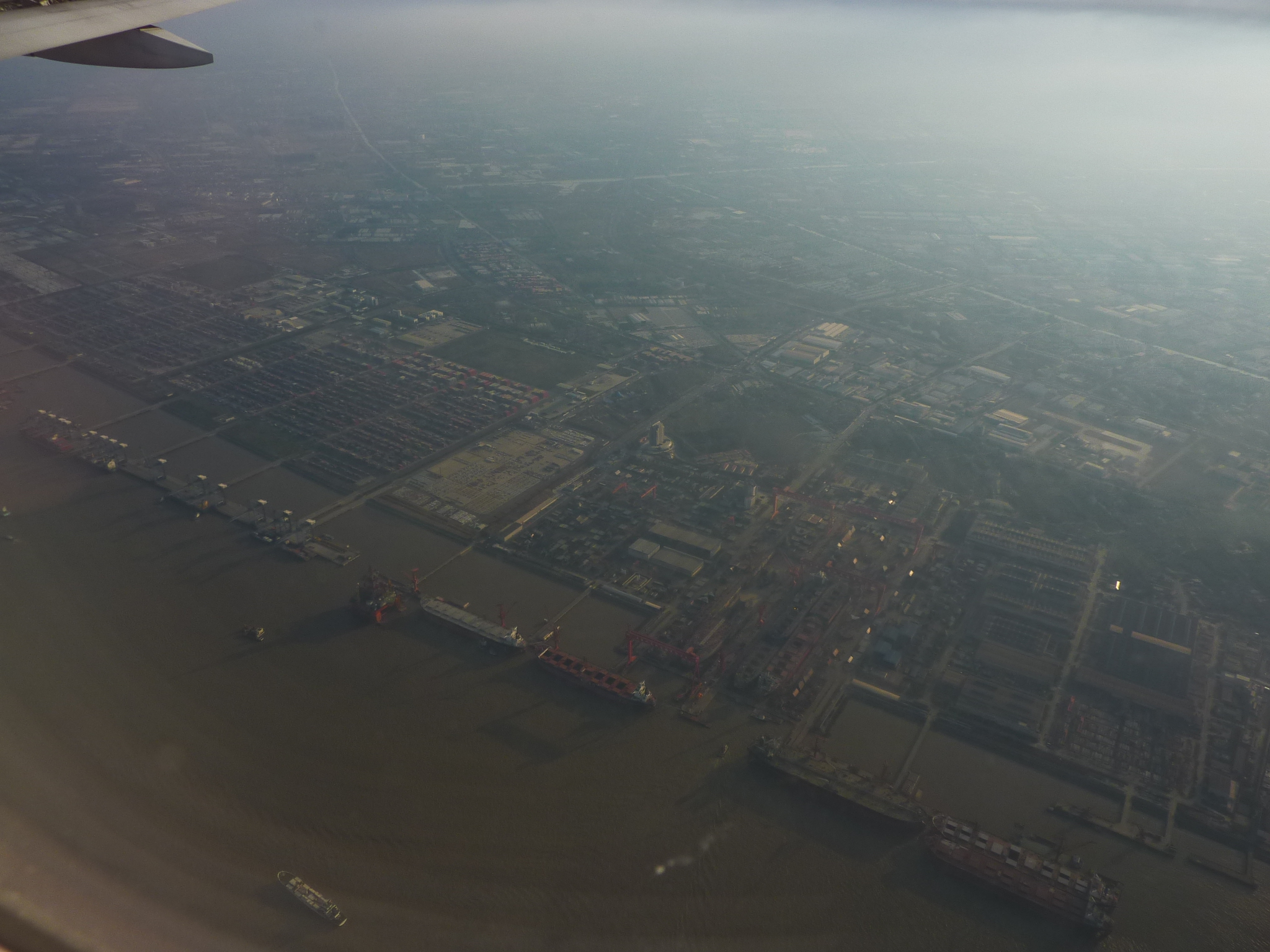 An aerial photo of the Shanghai area, from a plane coming to PVG from the north